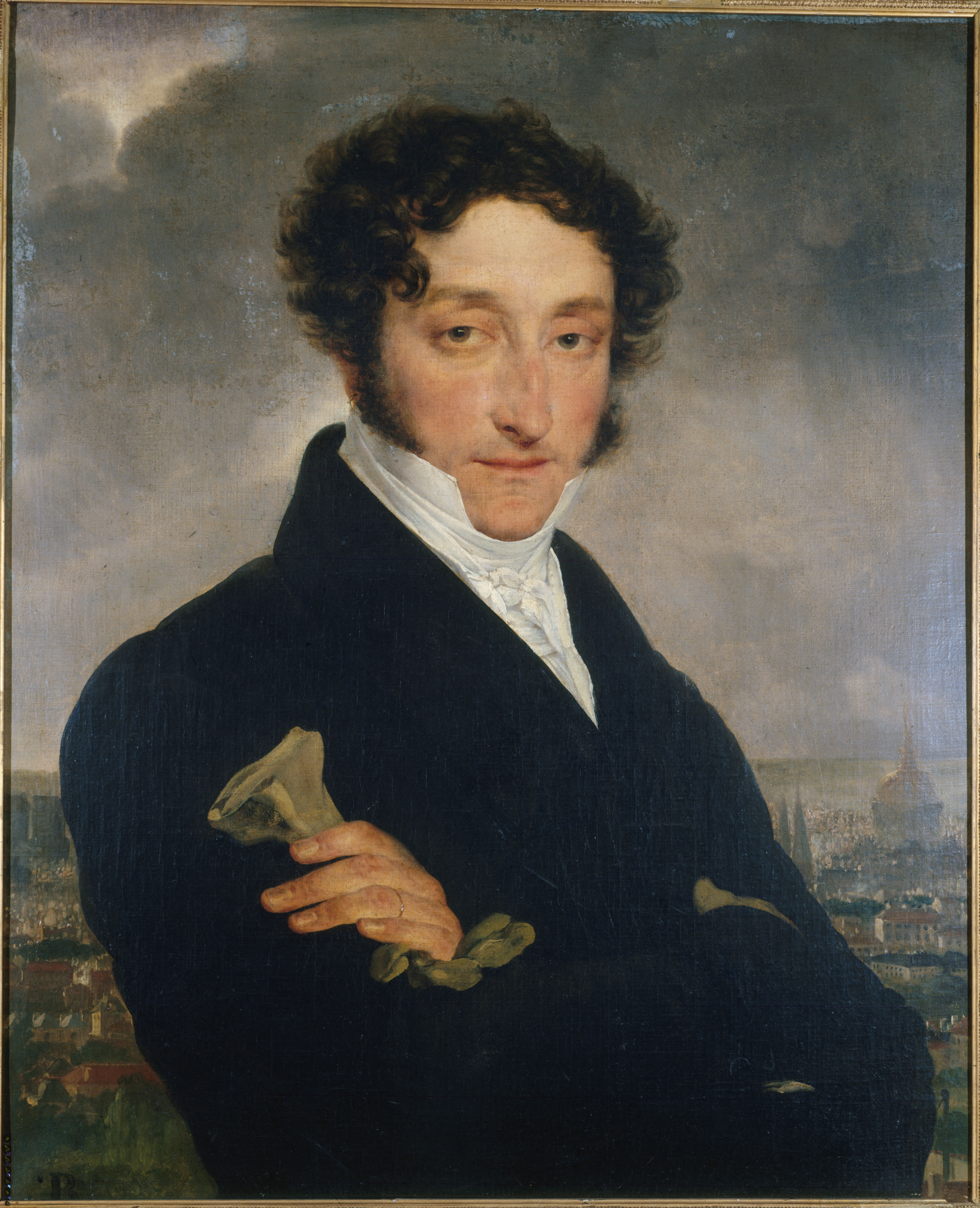 Portrait of a Man, formerly identified as Charles Nodier (1780-1877)